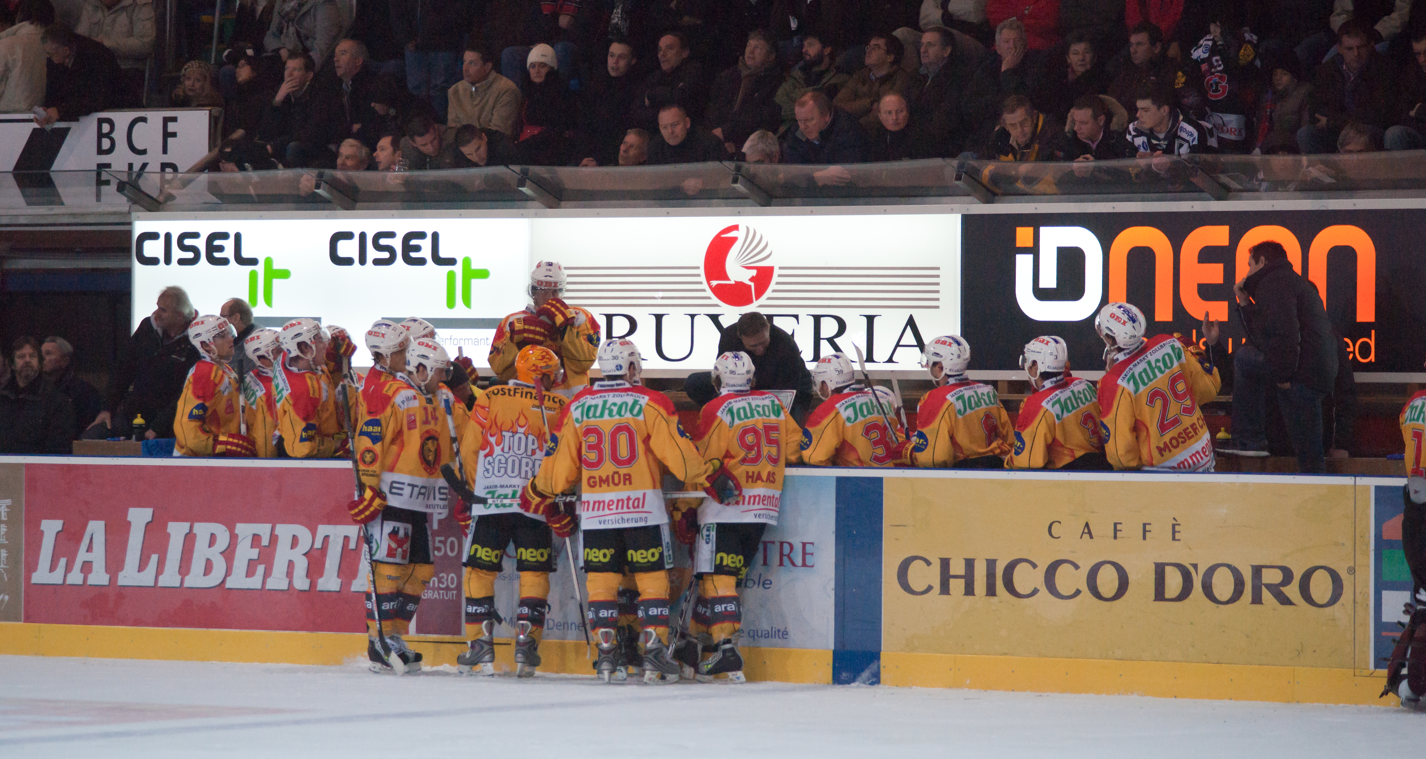 The making of this document was supported by Wikimedia CH. (Submit your project!) For all the files concerned, please see the category Supported by Wikimedia CH.